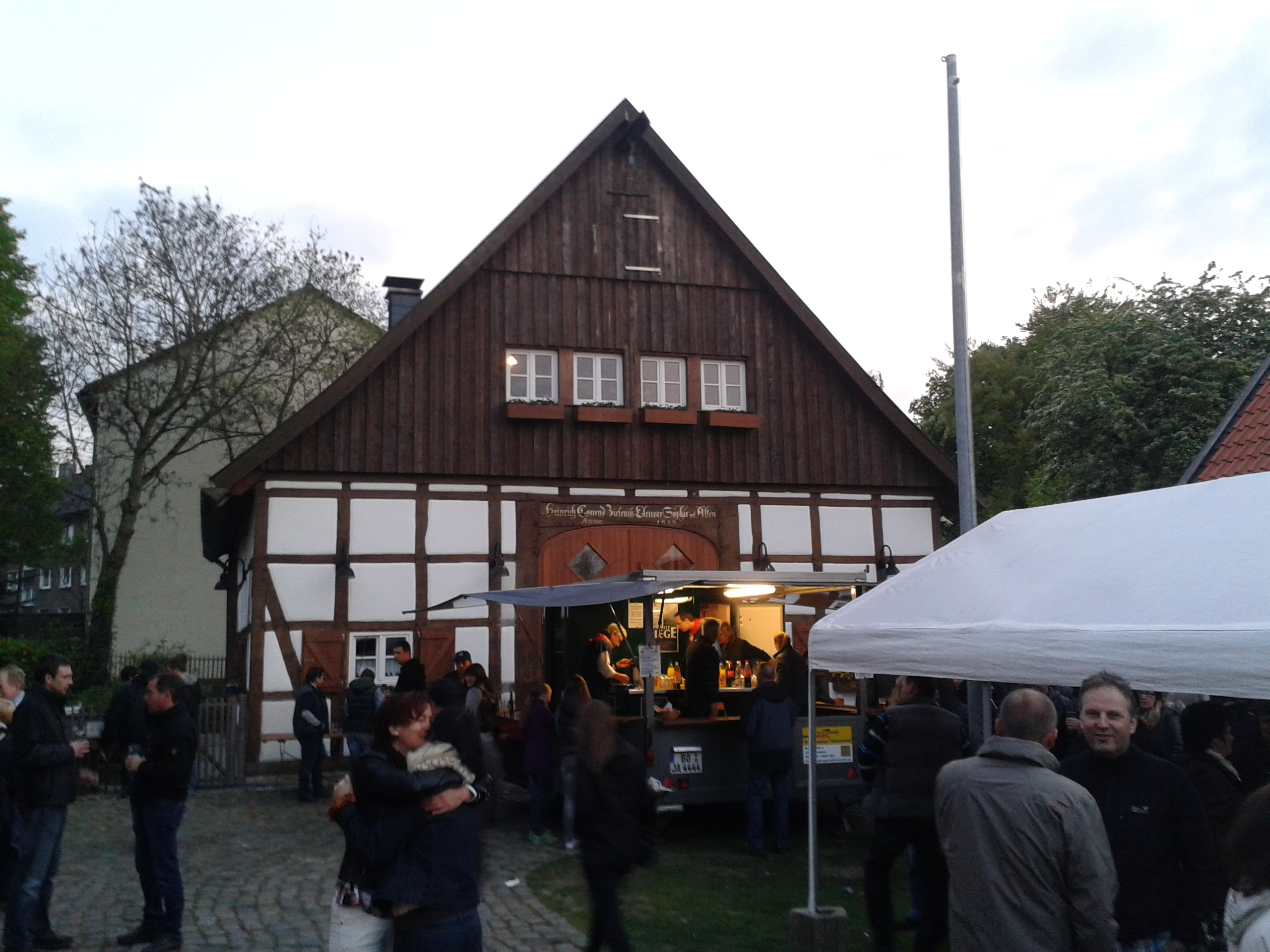 Thorpe Heimatmuseum, Bochum, Germany